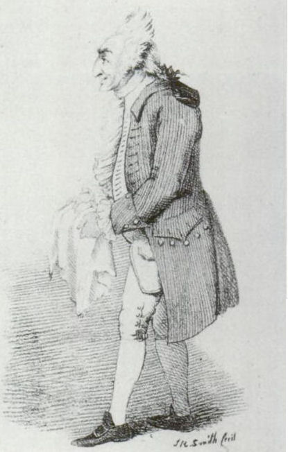 The actor-manager William Twaits (1781-1814) as Sir Adam Contest in The Wedding Day - engraving by John Raphael Smith (1751-1812)